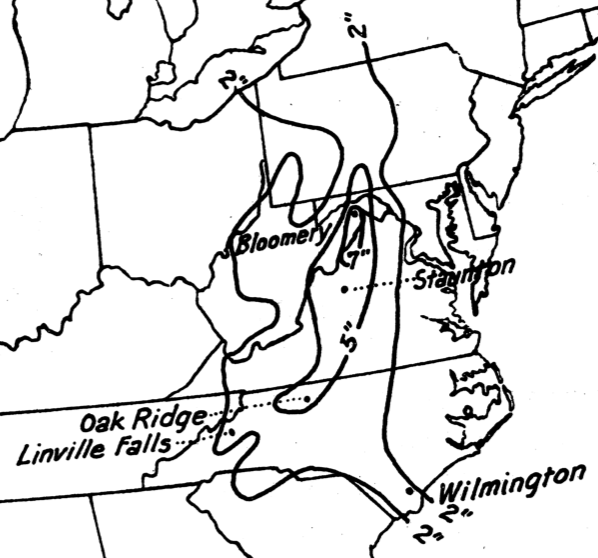 This rainfall map was prepared for the Late September 1896 hurricane by the U.S. Army Corp of Engineers